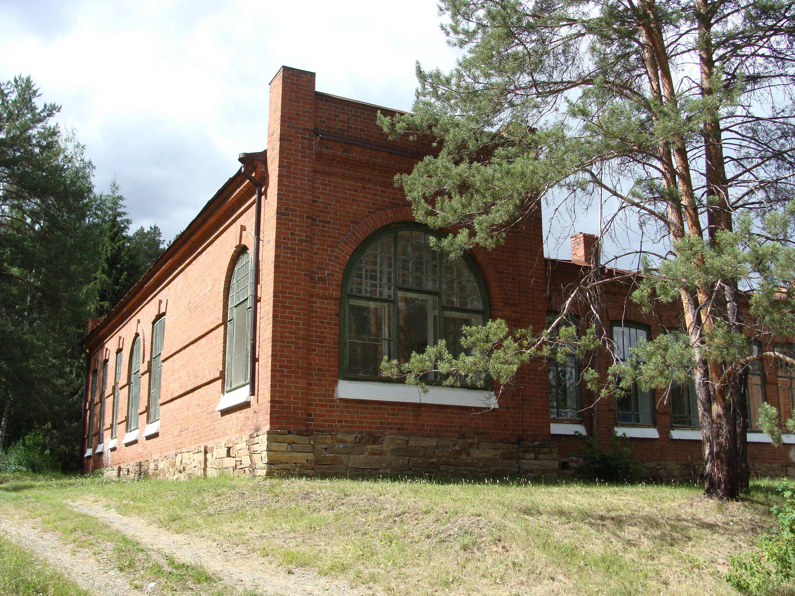 Hospital of Cheremisskoye